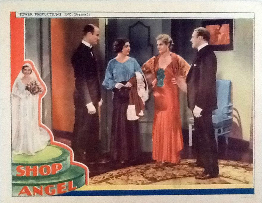 Lobby card for the American romantic drama film Shop Angel (1932).